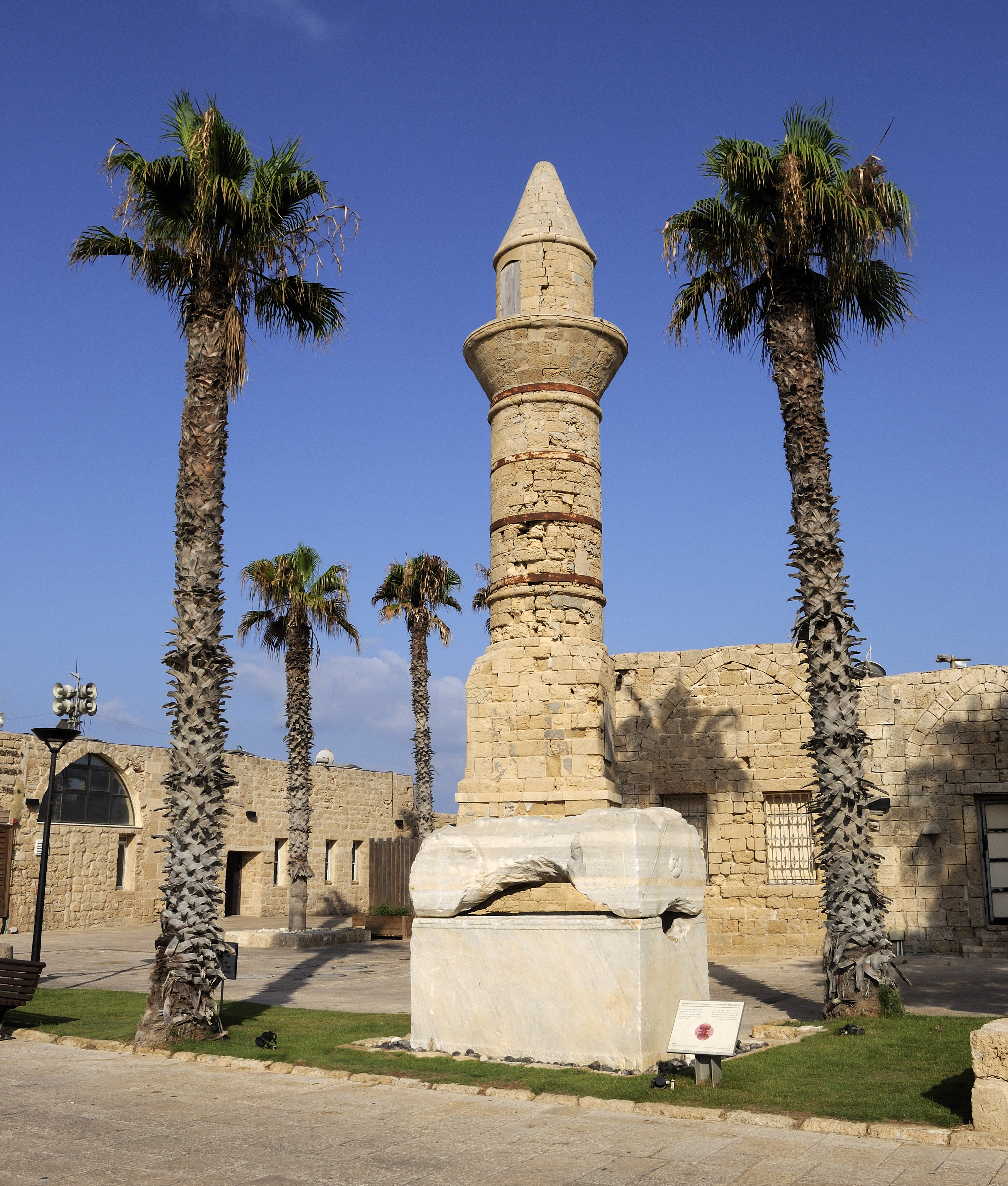 Picture taken in Caesarea Maritima national park.